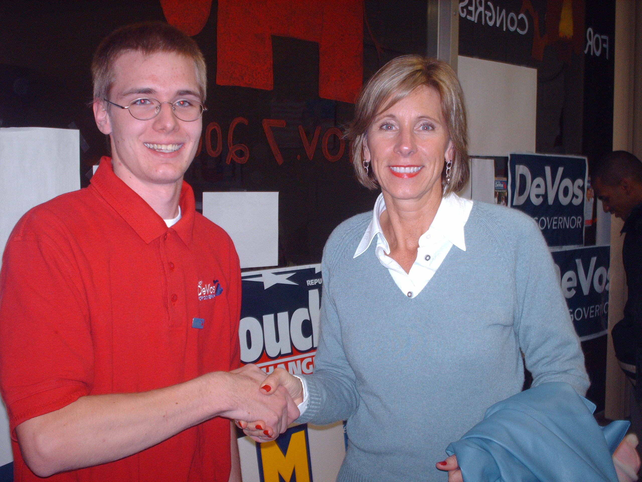 Author, Keith A. Almli (As Pictured), At the Houghton County Republican Victory Center.